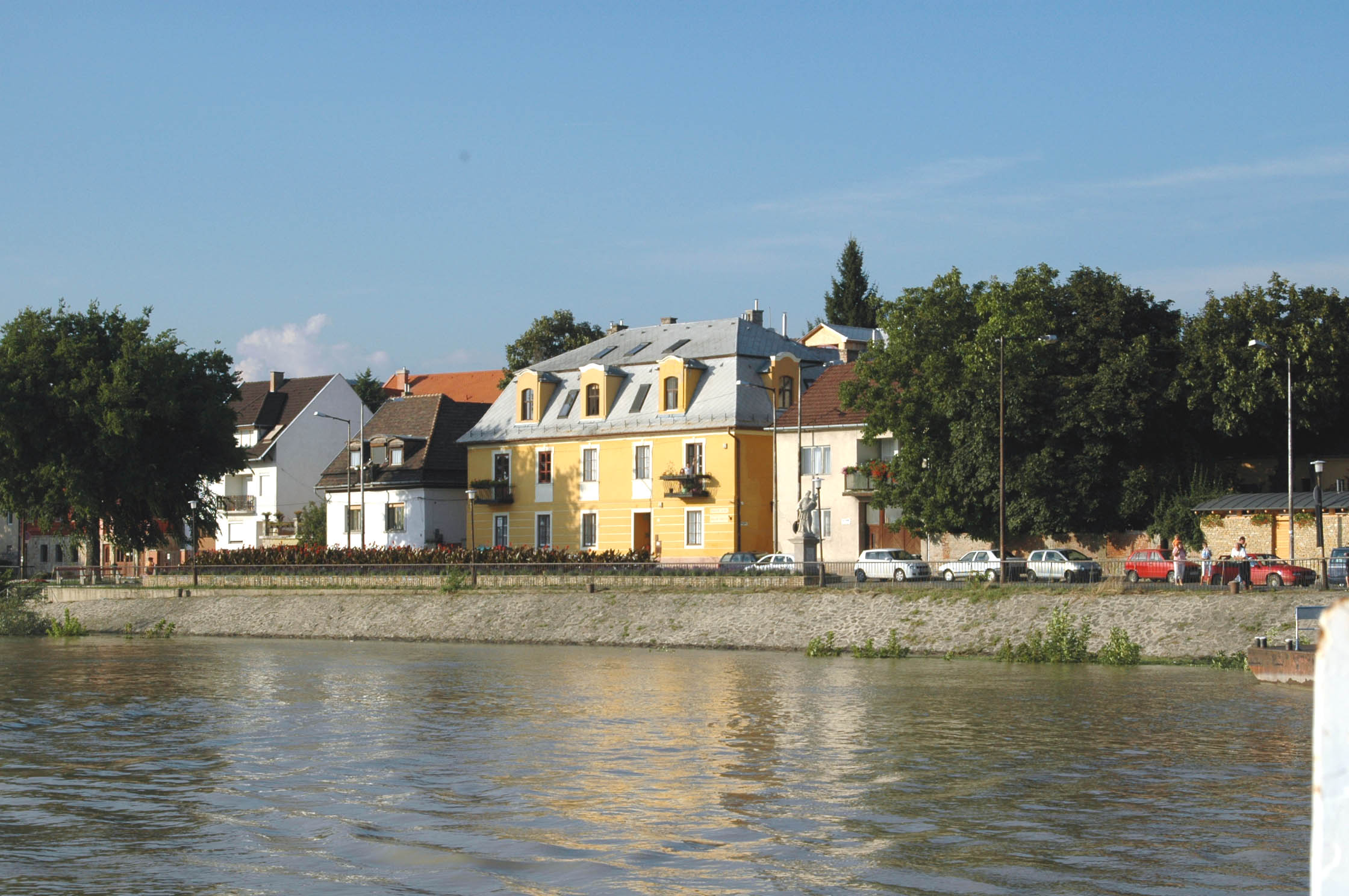 Czvian house, Vac